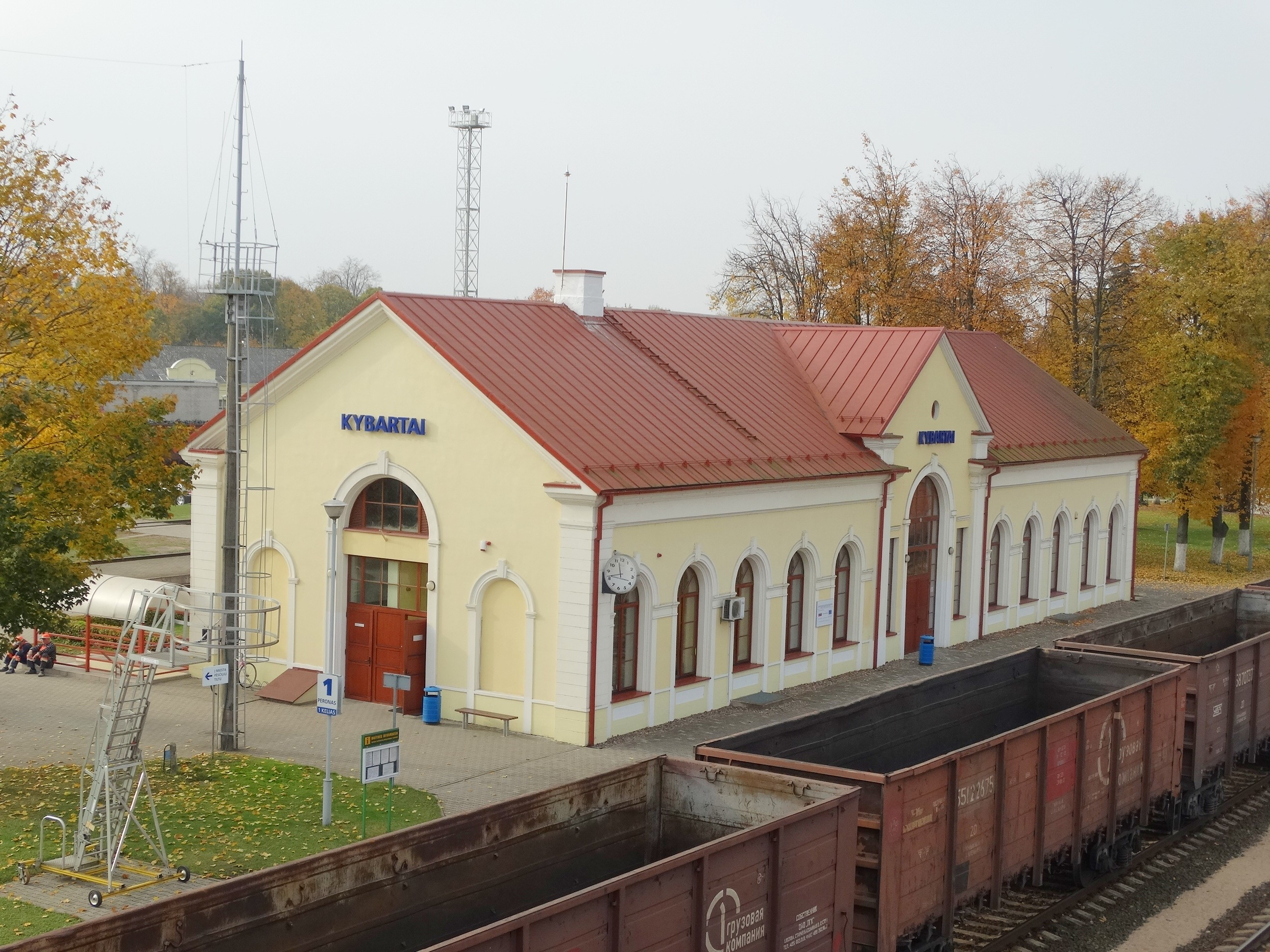 Railway station, Kybartai, Lithuania